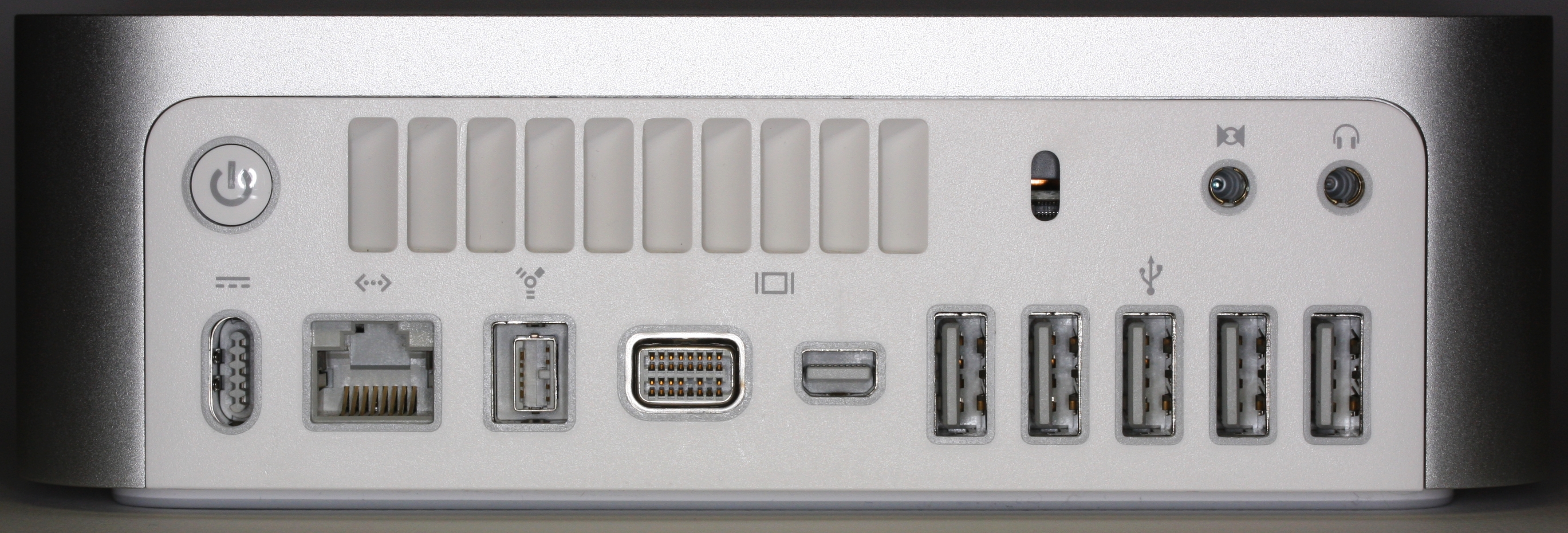 The backside of a Mac Mini of the fourth generation